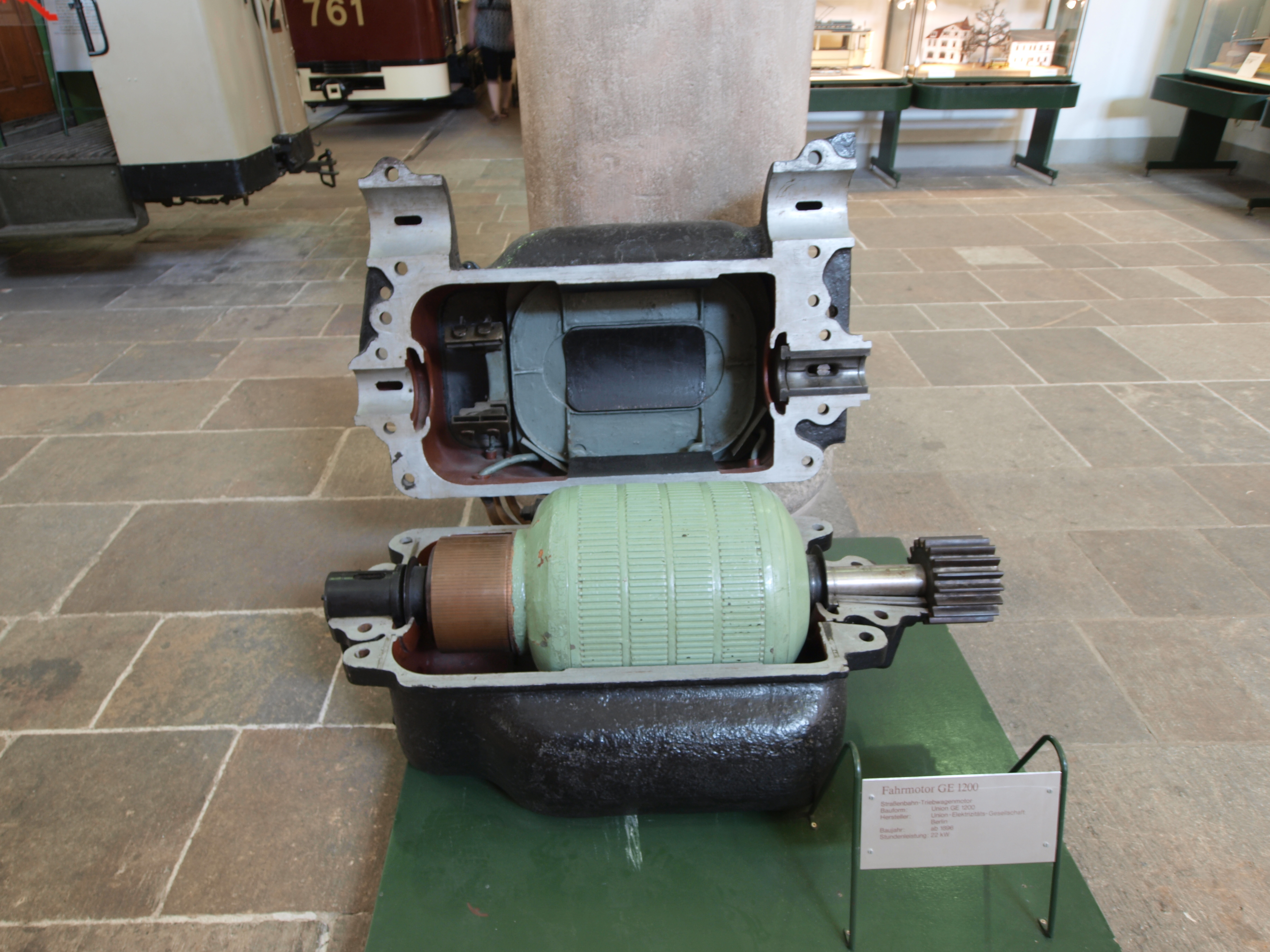 Photo taken without a tripod (was not permitted!) Fahrmotor GE 1200.